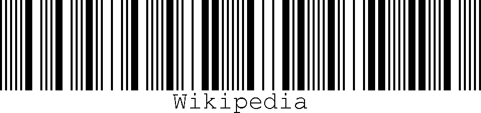 Telepen barcode containing "Wikipedia". Created using Barcode Writer in Pure PostScript